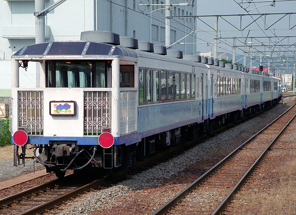 JR Shikoku 50 series passenger cars for the Island Express Shikoku, after a renewal